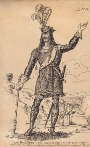 Jakub Bua Shpata